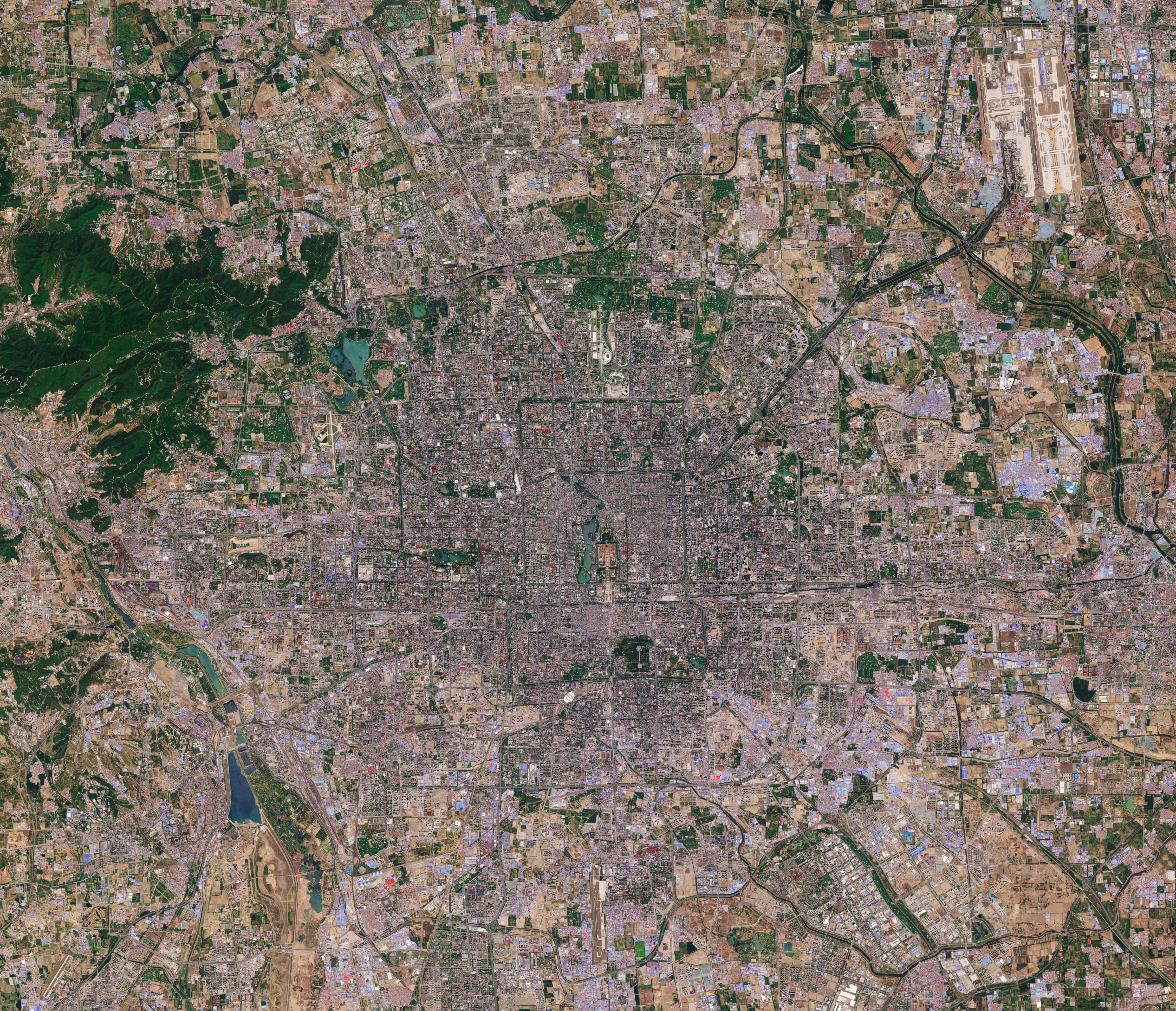 Today, 16 February, upwards of 20% of the world’s population will be celebrating Chinese New Year, also known as the Spring Festival. According to the traditional Chinese calendar, which is based on the lunar cycle and the position of the Sun, the New Year changes each year, but always falls between 21 January and 20 February. There are 12 Chinese zodiac animals that represent years, and 2018 is the year of the dog. Marking this special day, we take a look at a Sentinel-2 image of Beijing, the capital of China. It is one of the most populous cities in the world, with over 21 million people, but during the New Year millions travel from the big cities back to their hometowns to spend the holiday with their families in what is considered the world’s largest annual migration. Beijing lies in northeast China at the northern tip of the North China Plain. While the city lies on flat ground, it is surrounded by mountains to the north and west (not pictured). From space, the city appears to be divided up into many squares, which is a consequence of it being one of oldest planned cities in the world. Beijing’s present urban form was established in the early Ming dynasty – between 1368 and 1644 – with planning stipulating that the city should be a square encompassing nine avenues running north–south and nine running east–west. While this Copernicus Sentinel-2 image details much of the city, a number of famous landmarks can be picked out easily. For example, lying in the heart of Beijing, the Forbidden City, one of China’s largest and best preserved heritage sites, and Tiananmen Square can be seen. Happy Chinese Year – or Xīn nián kuài lè – to all. This Sentinel-2 image, which was captured on 3 May 2016, is also featured on the Earth from Space video programme . Credits: contains modified Copernicus Sentinel data (2016), processed by ESA, CC BY-SA 3.0 IGO